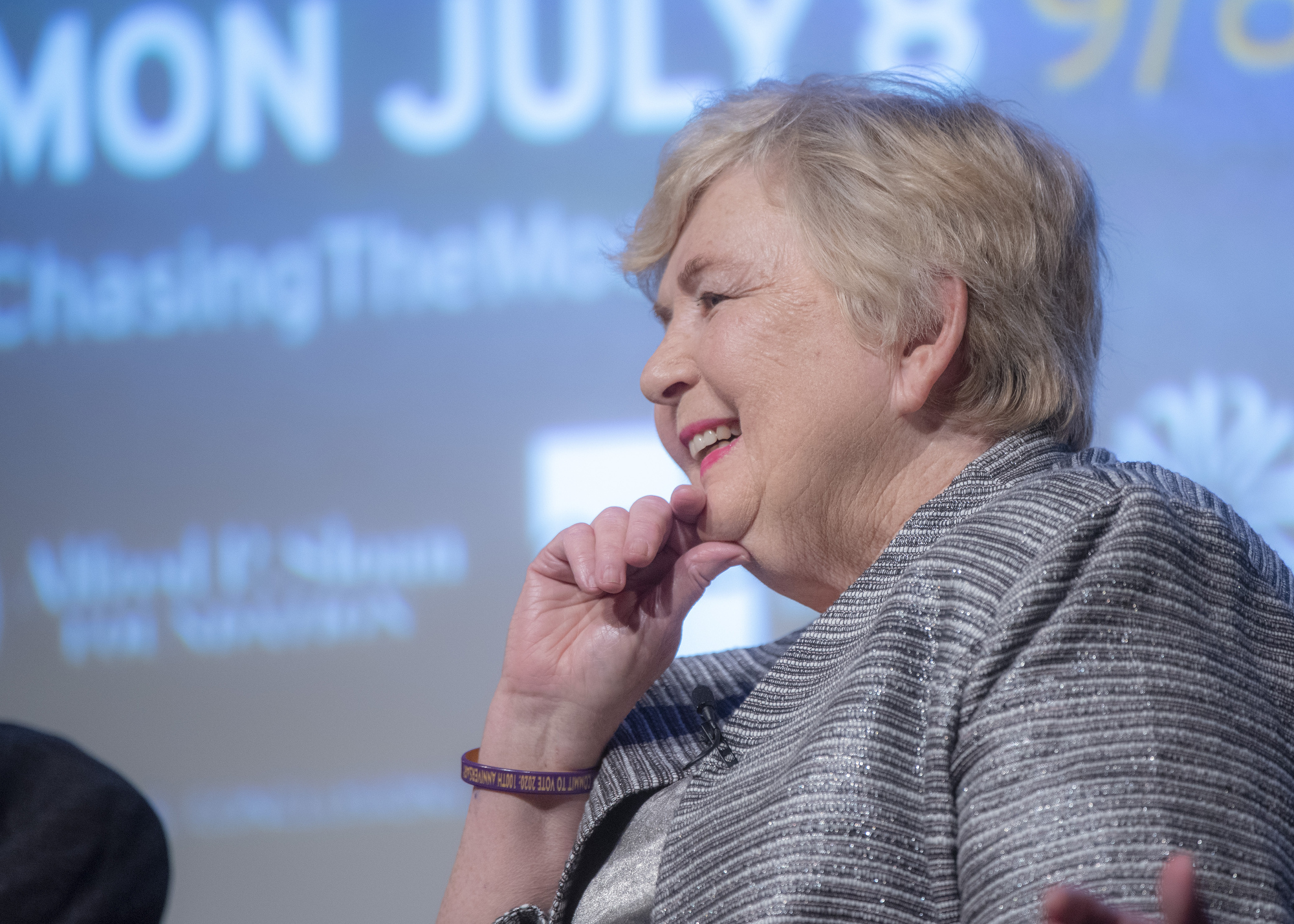 On May 1, 2019, Friends of the LBJ Library viewed a sneak preview of 'Chasing the Moon', a new six-hour PBS documentary series from AMERICAN EXPERIENCE. The film documents the space race from its earliest beginnings to the monumental achievement of the first lunar landing in 1969 and beyond. After the screening, a discussion followed with filmmaker Robert Stone, Poppy Northcutt, who at 25 gained worldwide attention as the first woman to serve in the all-male bastion of NASA's Mission Control, and Roger Launius, former chief historian of NASA.